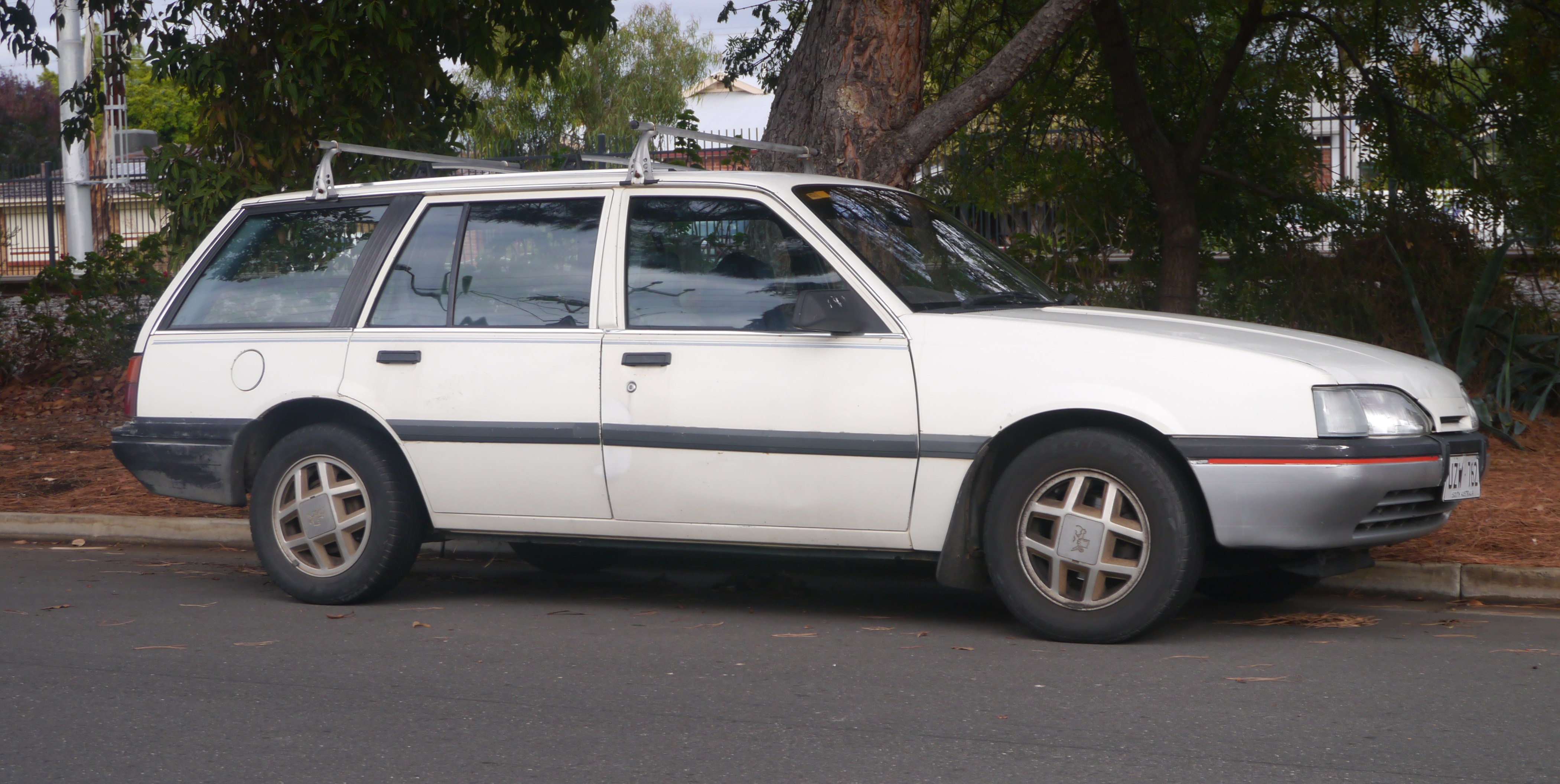 The Carmira has become a very rare sight on the roads nowadays, let alone trying to spot a Camira wagon! I think the alloy wheels are from the Camira SLi 2000 edition.